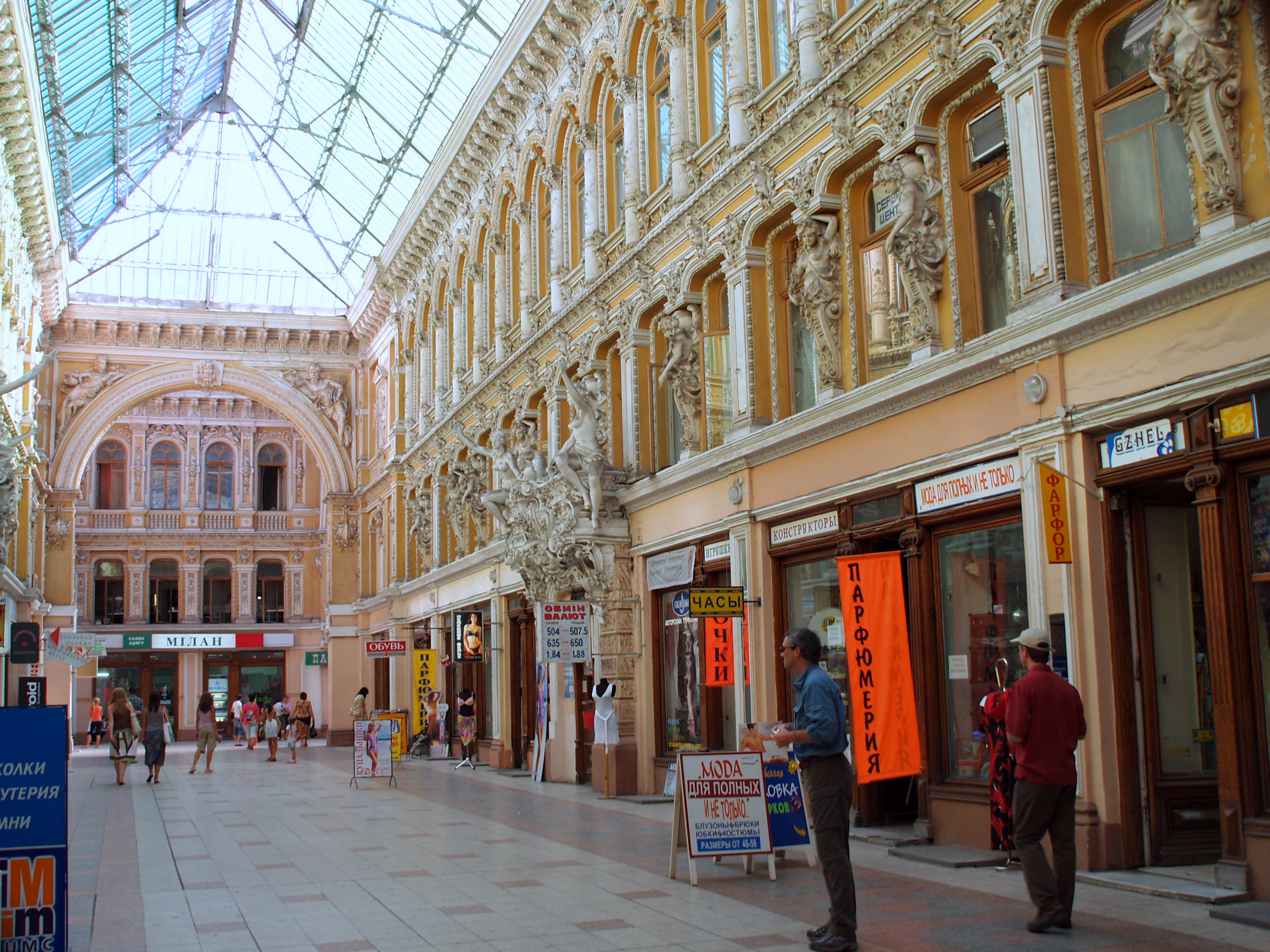 The Passage shopping galleries in Odessa, Ukraine